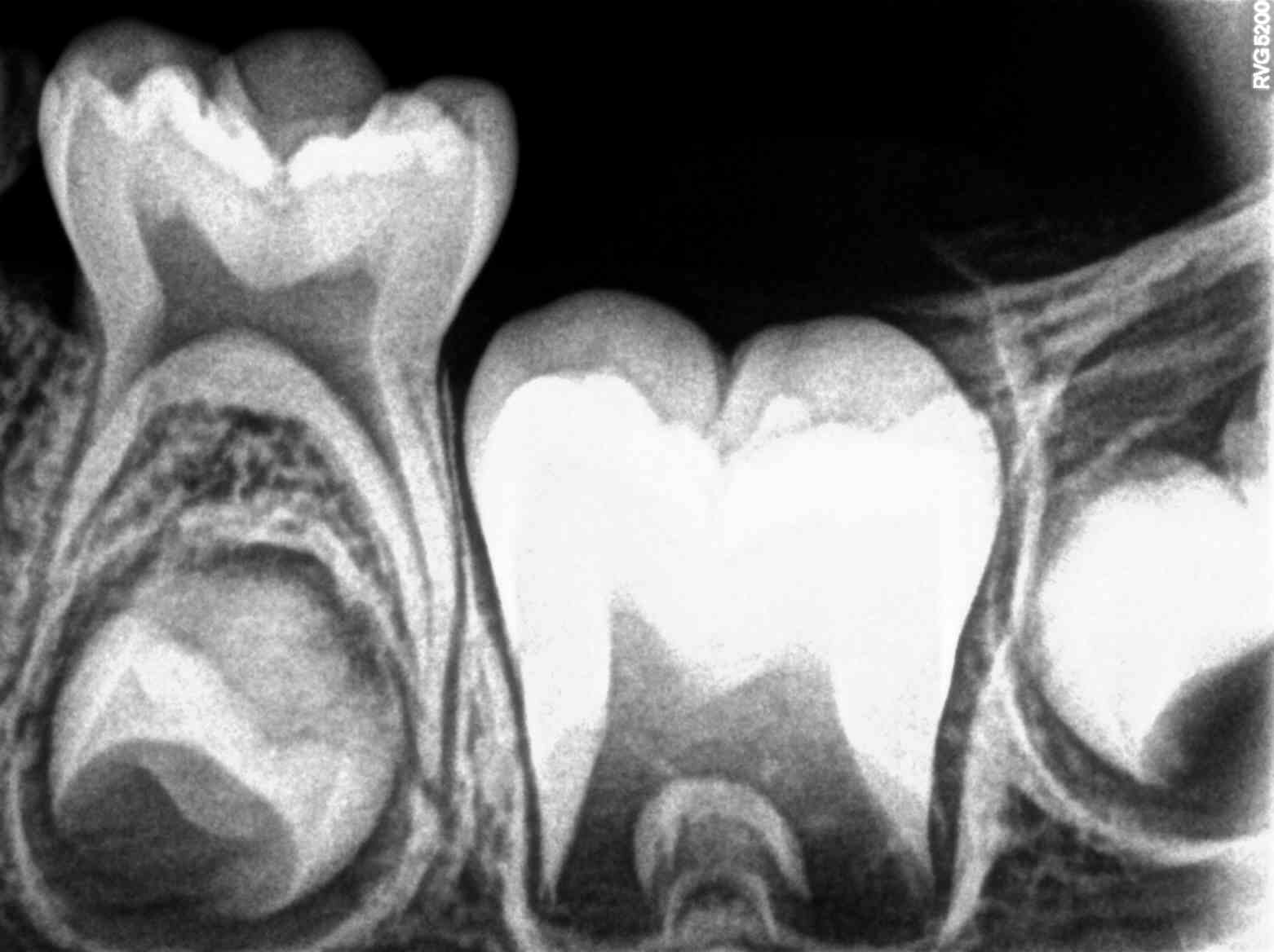 Intraoral Periapical Radiograph (IOPA) of a boy aged 5 years showing Deciduous/Milky/Primary Tooth # 75 and developing crowns of Permanent/Secondary Teeth # 35, 36 and 37. #35 is below #75.